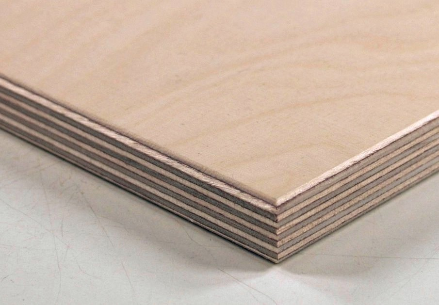 Finnish birch plywood. 15 mm thick.